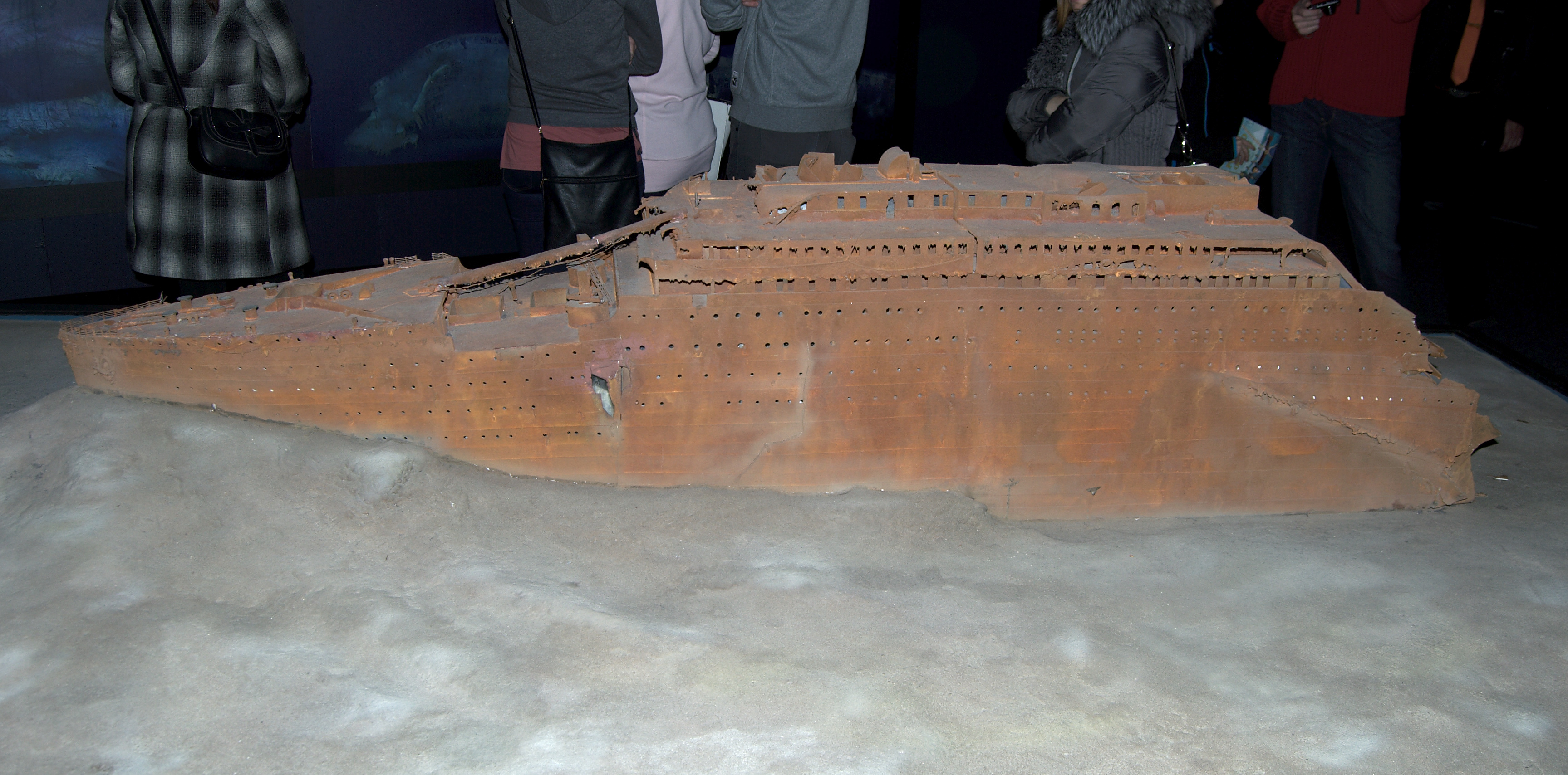 Titanic wreck model in Brno